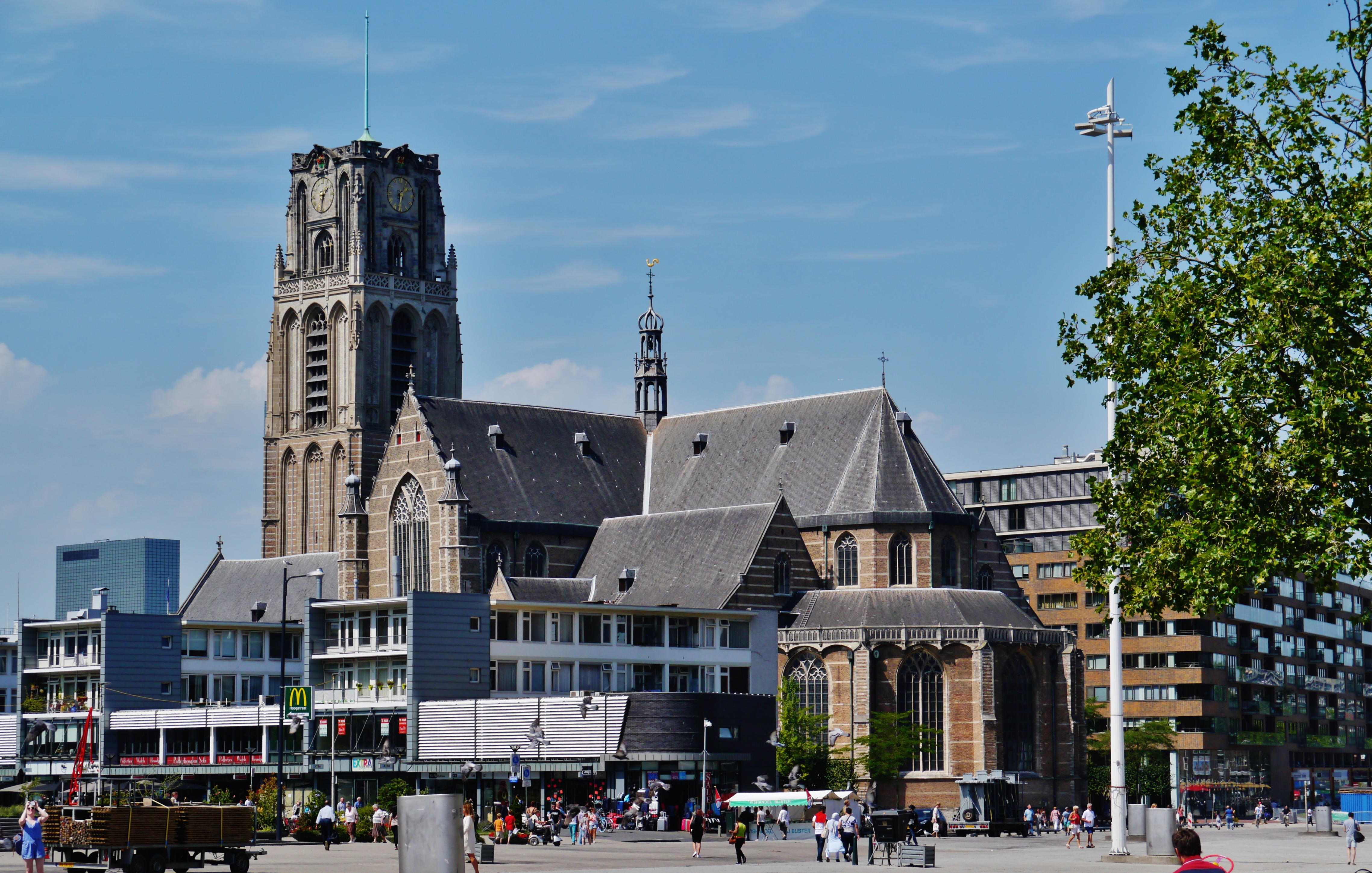 Grand Church St. Laurentius, Rotterdam, Procince of South Holland, Netherlands